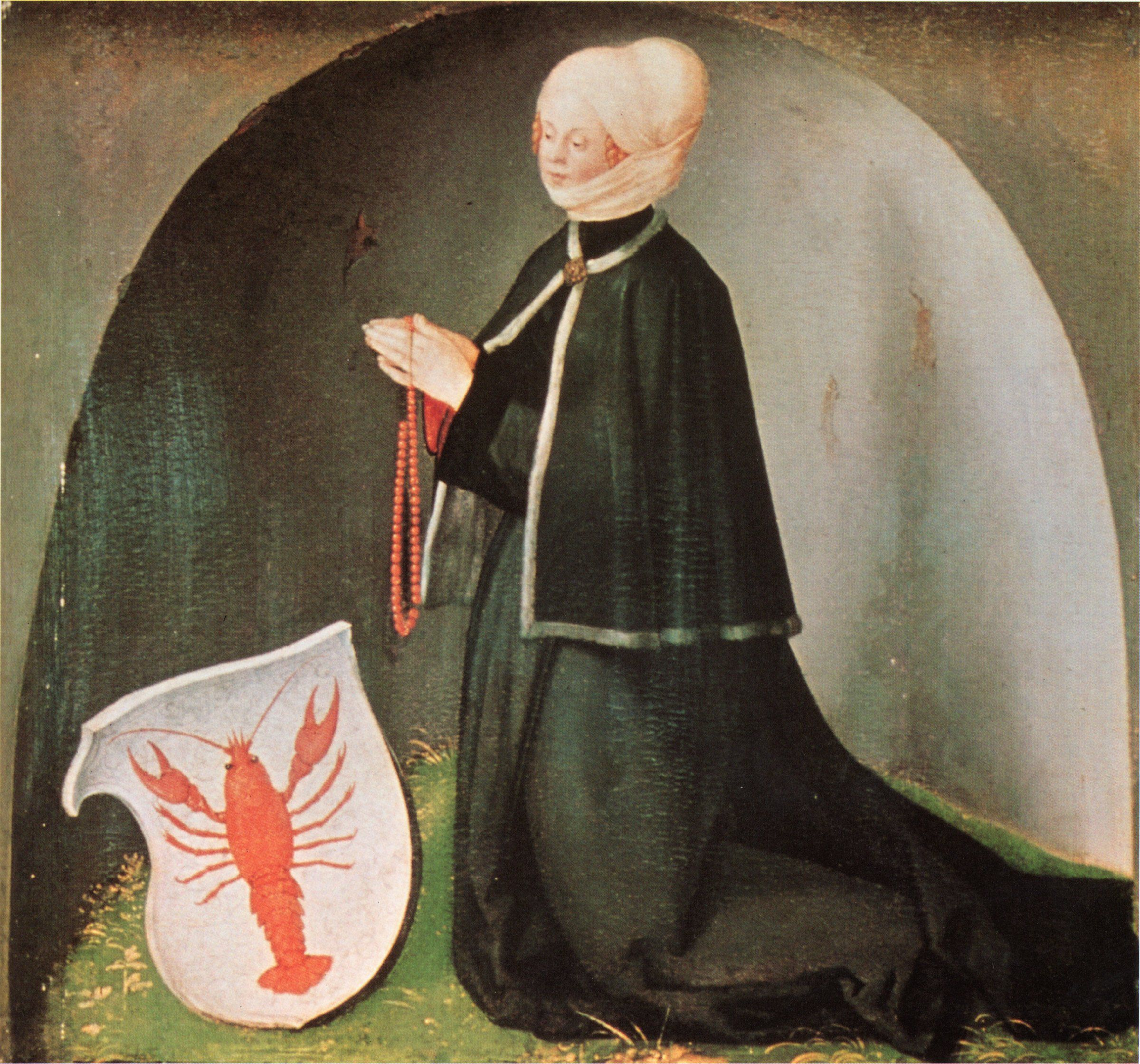 Bottom right wing, scene: The Benefactress Katharina Heller, born von Melem, with coat of arms